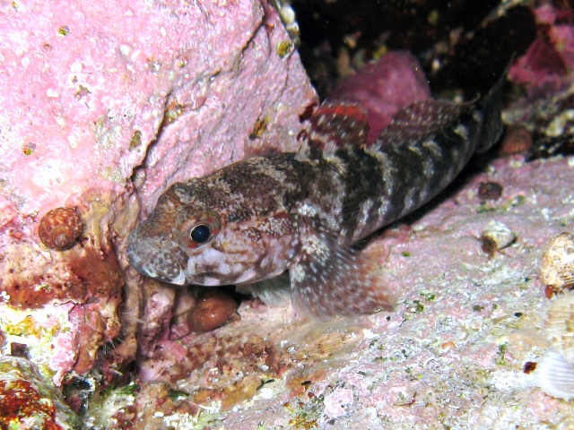 Gobius paganellus photographed in Sardinia, Italy